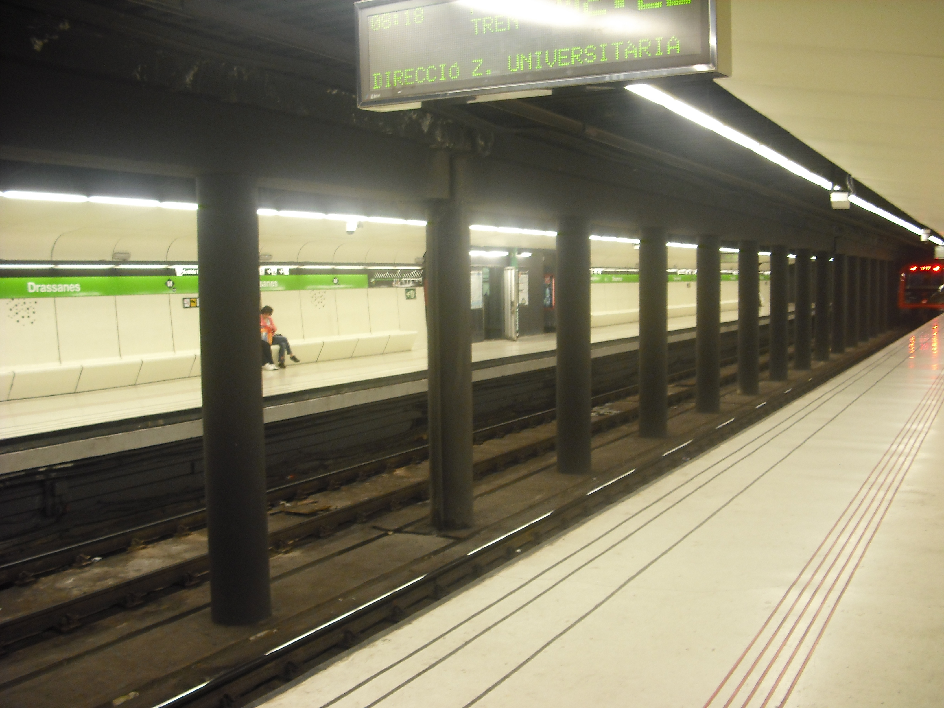 Shot of Drassanes station at Barcelona Metro.